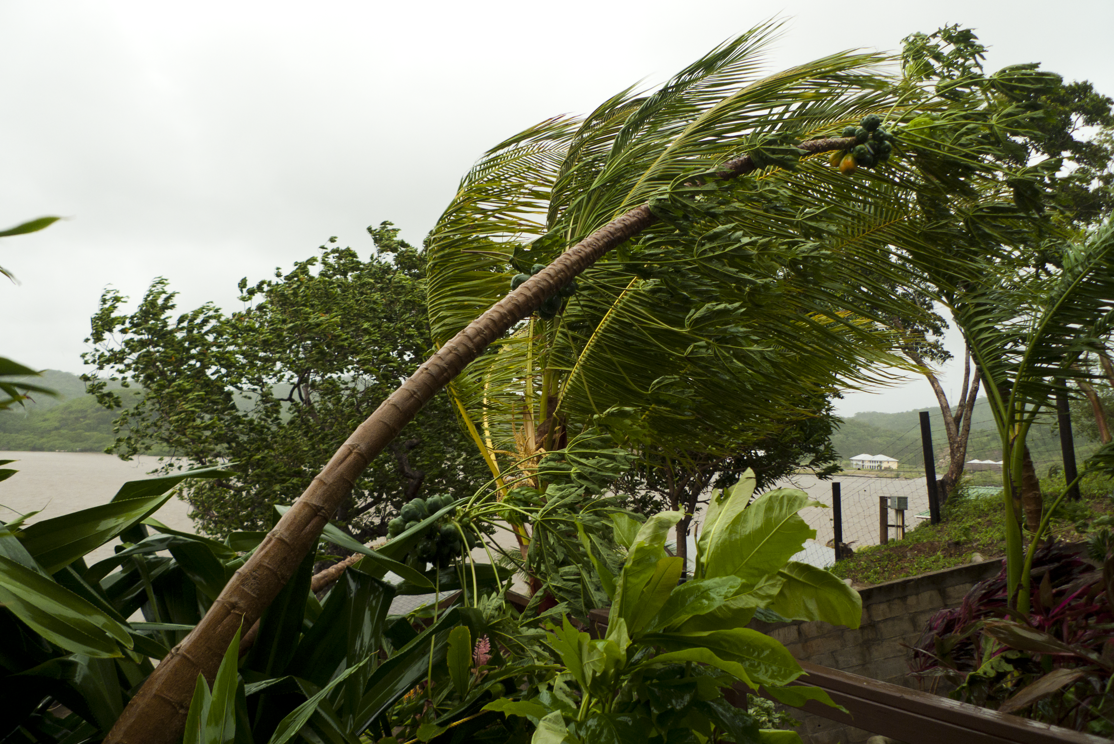 No actual hurricane force winds on Roatan, though we did lose a couple trees. The effects of Hurricane Richard (2010) in Roatán, October 2010.